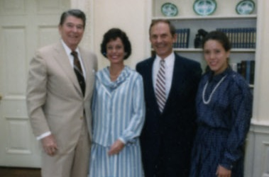 Ronald Reagan and Thomas C. Ferguson with spouse Linda and daughter Jessica Oval Office